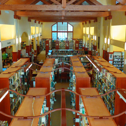 view of stacks of books